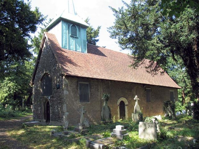 St Andrew Old Church, Kingsbury, London NW9